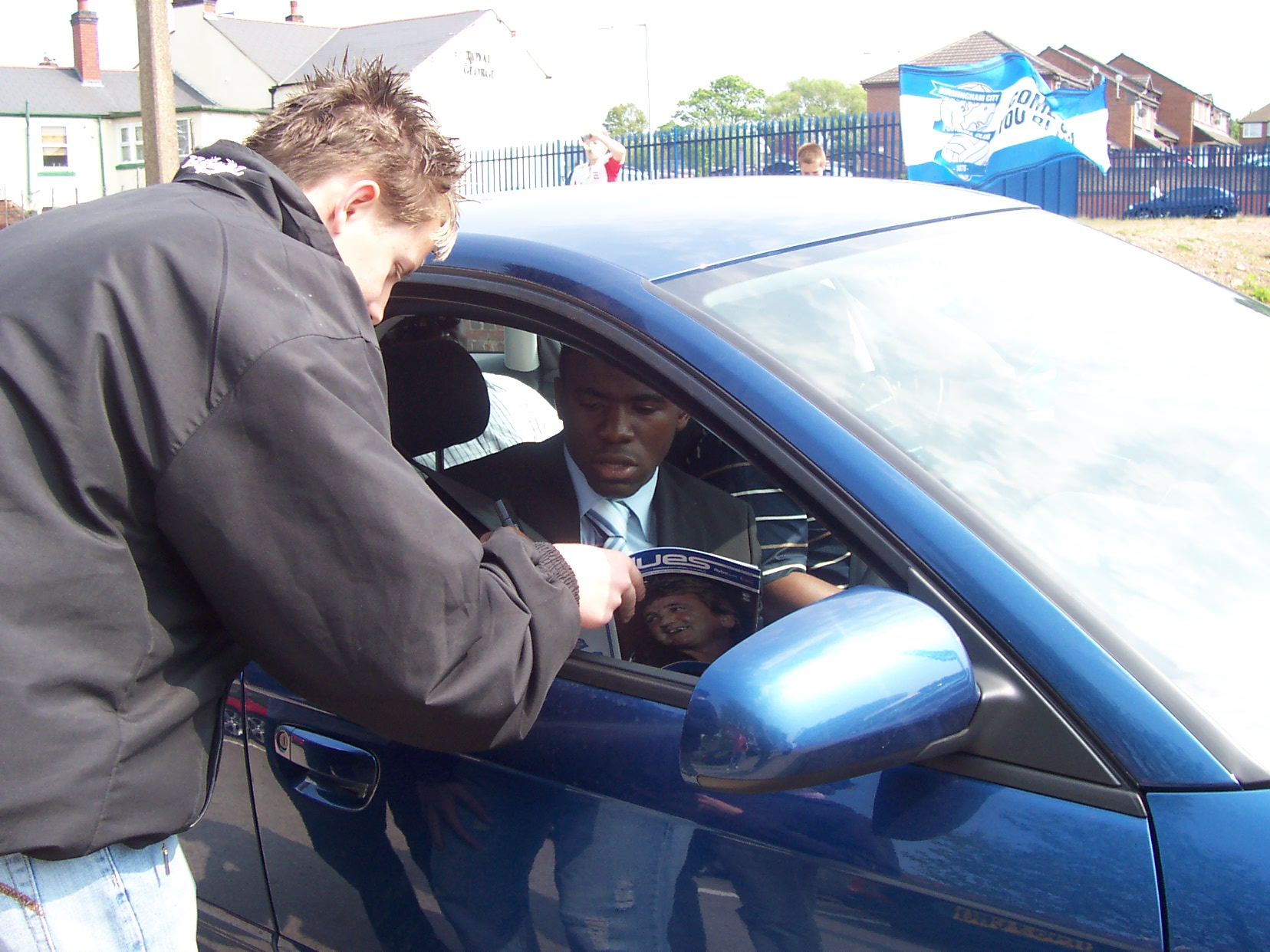 Muamba Before Birmingham V Sheff Wed